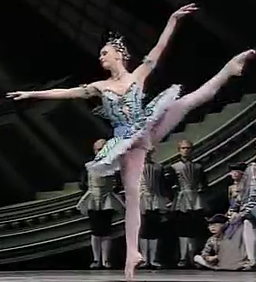 Genesia Rosato as Fiary Candide in Sleeping Beauty (Royal Opera House, 1994)